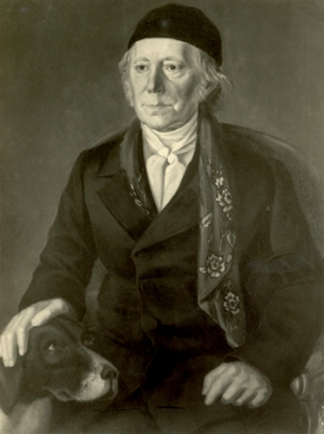 Johann Caspar Harkort V., Kgl. preuss. Kommerzienrat